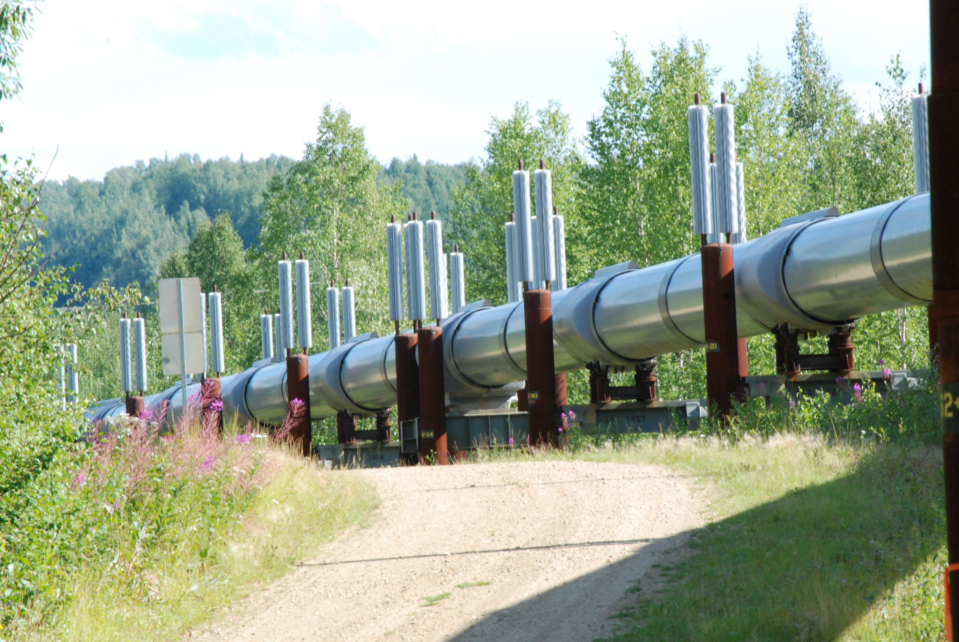 Trans-Alaskan Pipeline, located approximately 10 miles north of Fairbanks, Alaska.